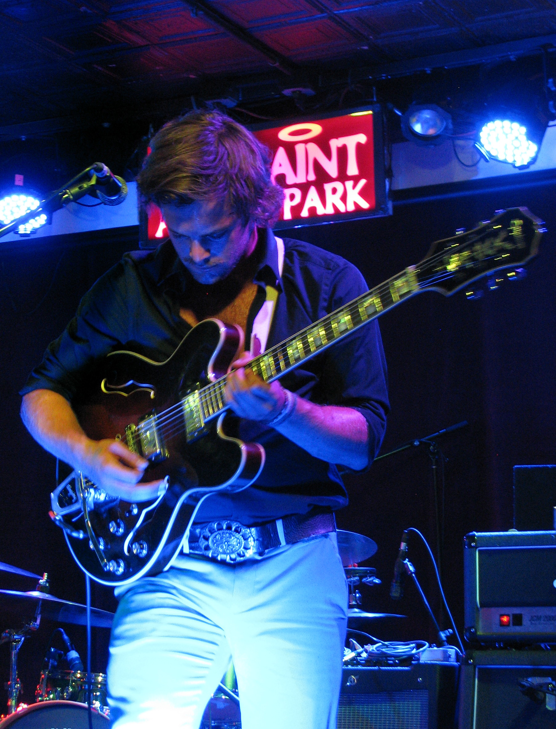 Deal Casino playing at The Saint on July 21, 2014, shortly after they arrived in Asbury Park. Photo by LHCollins.